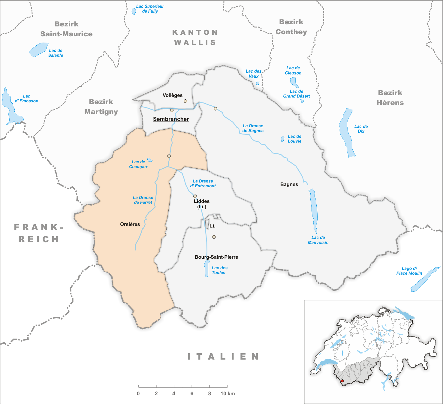 Municipality Orsières